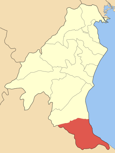 Locator map of Anatolikou Olympou municipality (Δήμος Ανατολικού Ολύμπου) at Pierias perfecture, Greece.